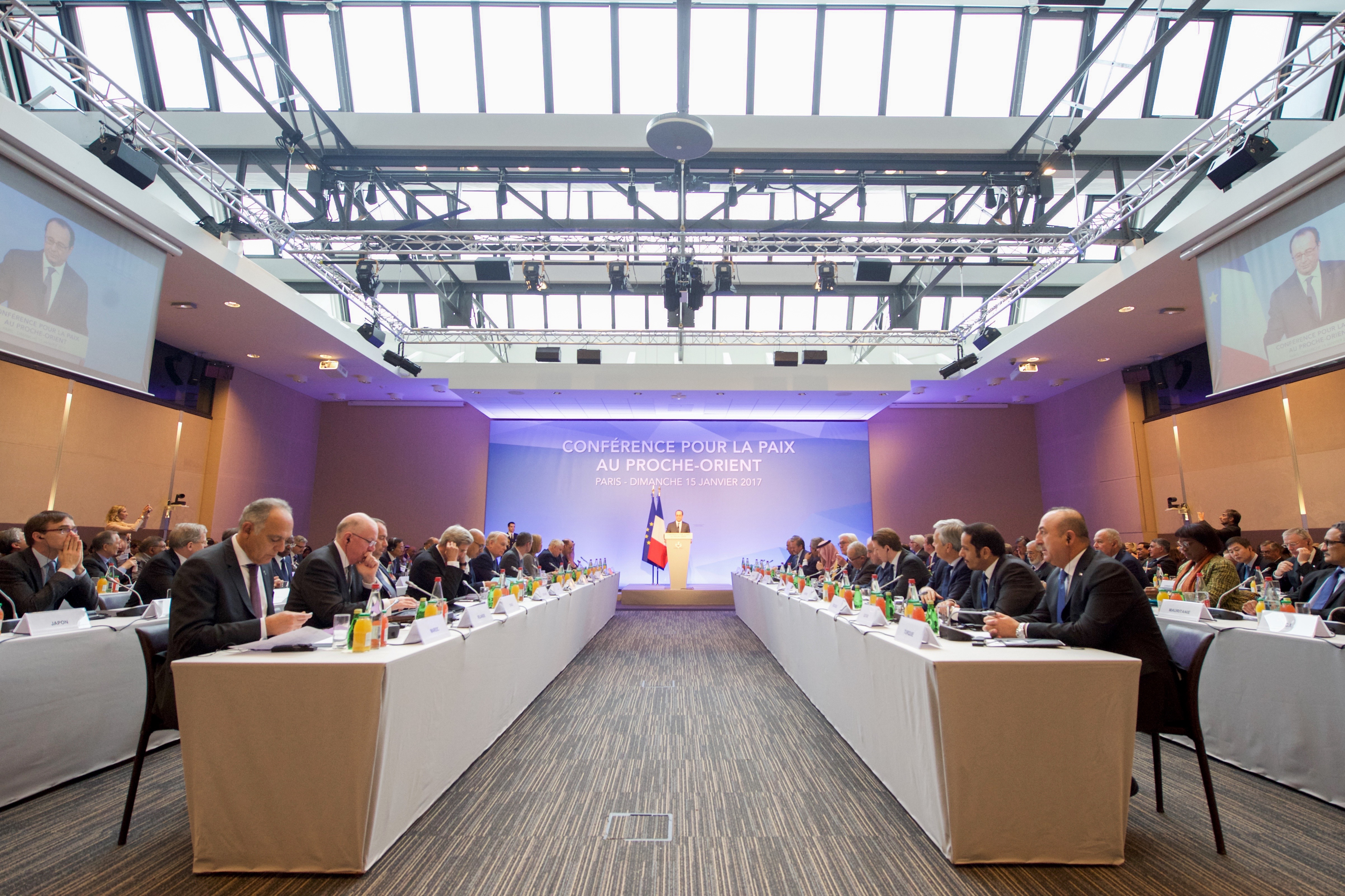 French President Francois Hollande addresses his guests on January 15, 2017, at the Ministry of Foreign Affairs Conference Center in Paris, France, at the outset of a French-hosted conference on Middle East peace attended by U.S. Secretary of State John Kerry. [State Department photo/ Public Domain]